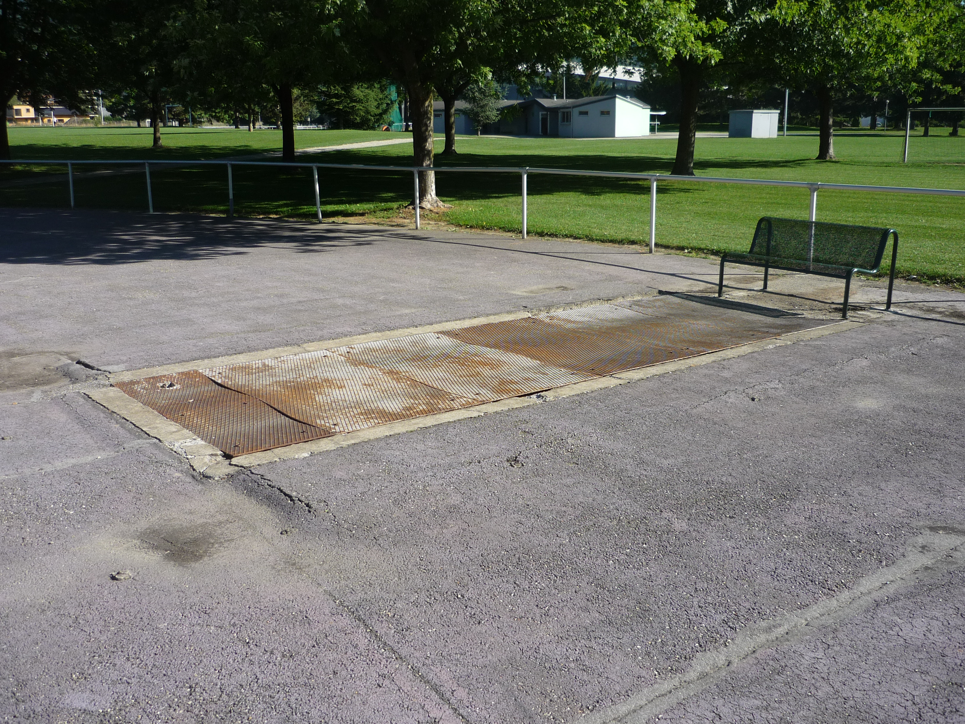 Trapdoor employed during the 1992 Winter Olympics opening ceremony, Albertville, Savoie, France